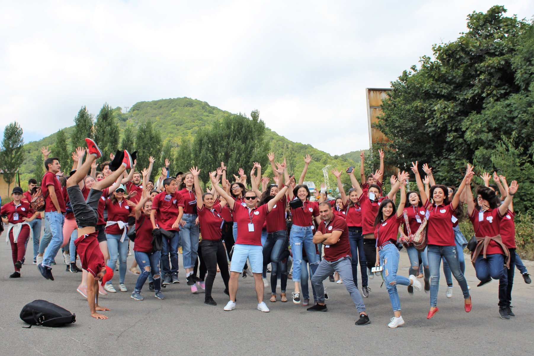 Summer Wikicamp 2018 Gruop photo